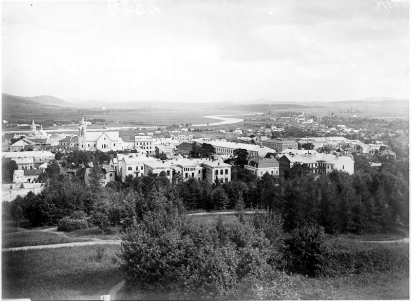 Sanok